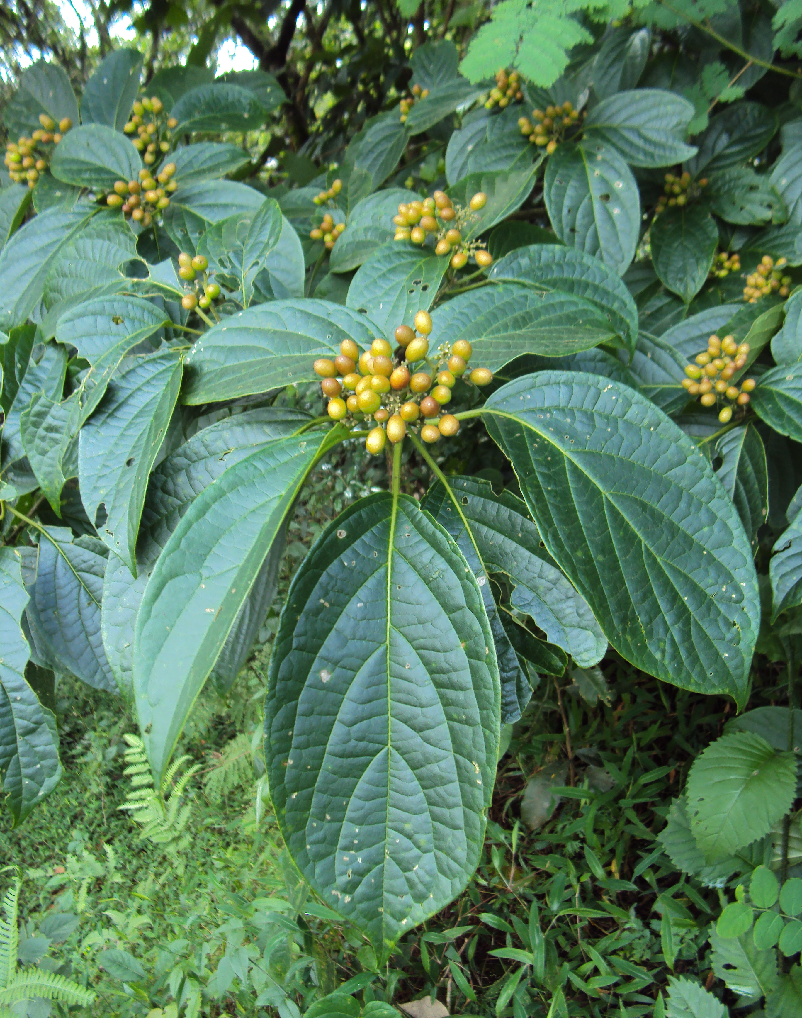 Nothapodytes foetida